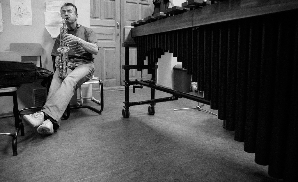 Vladimir Tolkachev. Oliver Lake sextet rehearsal at Novosibirsk Musical College, 20.10.10